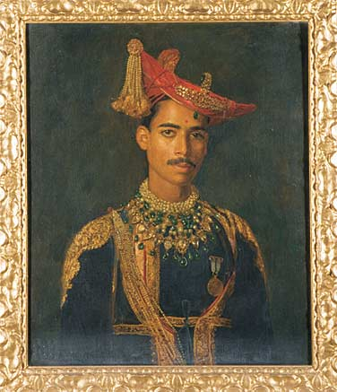 HH Maharaja Udaji Rao II Puar of Dhar